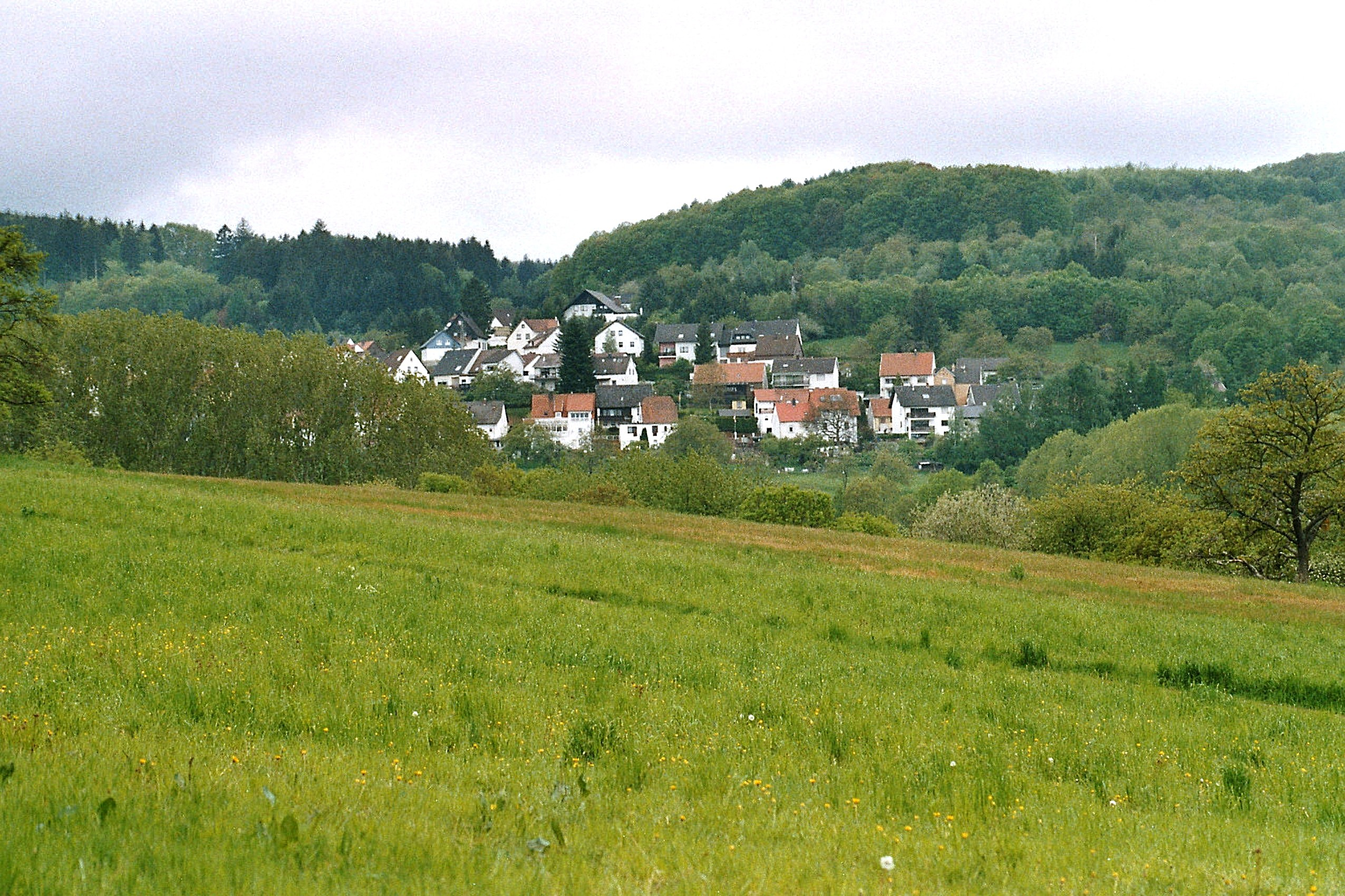 Dunzweiler, view to the village